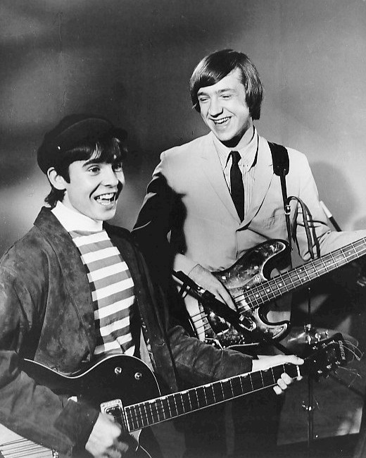 Photo of Davy Jones and Peter Tork from the first episode of The Monkees.